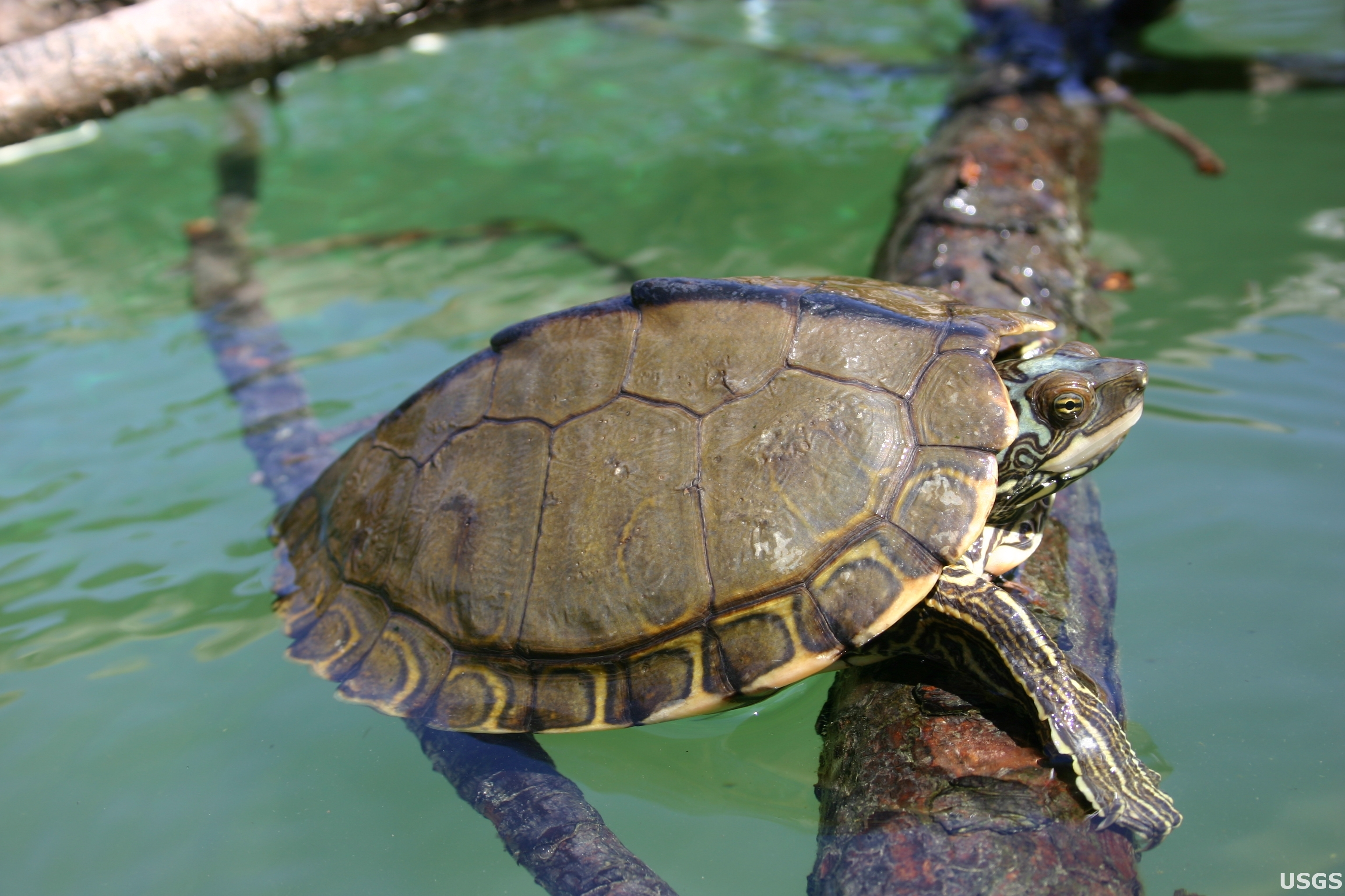 USGS researchers discovered a new species of turtle. The Pearl River map turtle makes its home in the Pearl River of Louisiana and Mississippi.